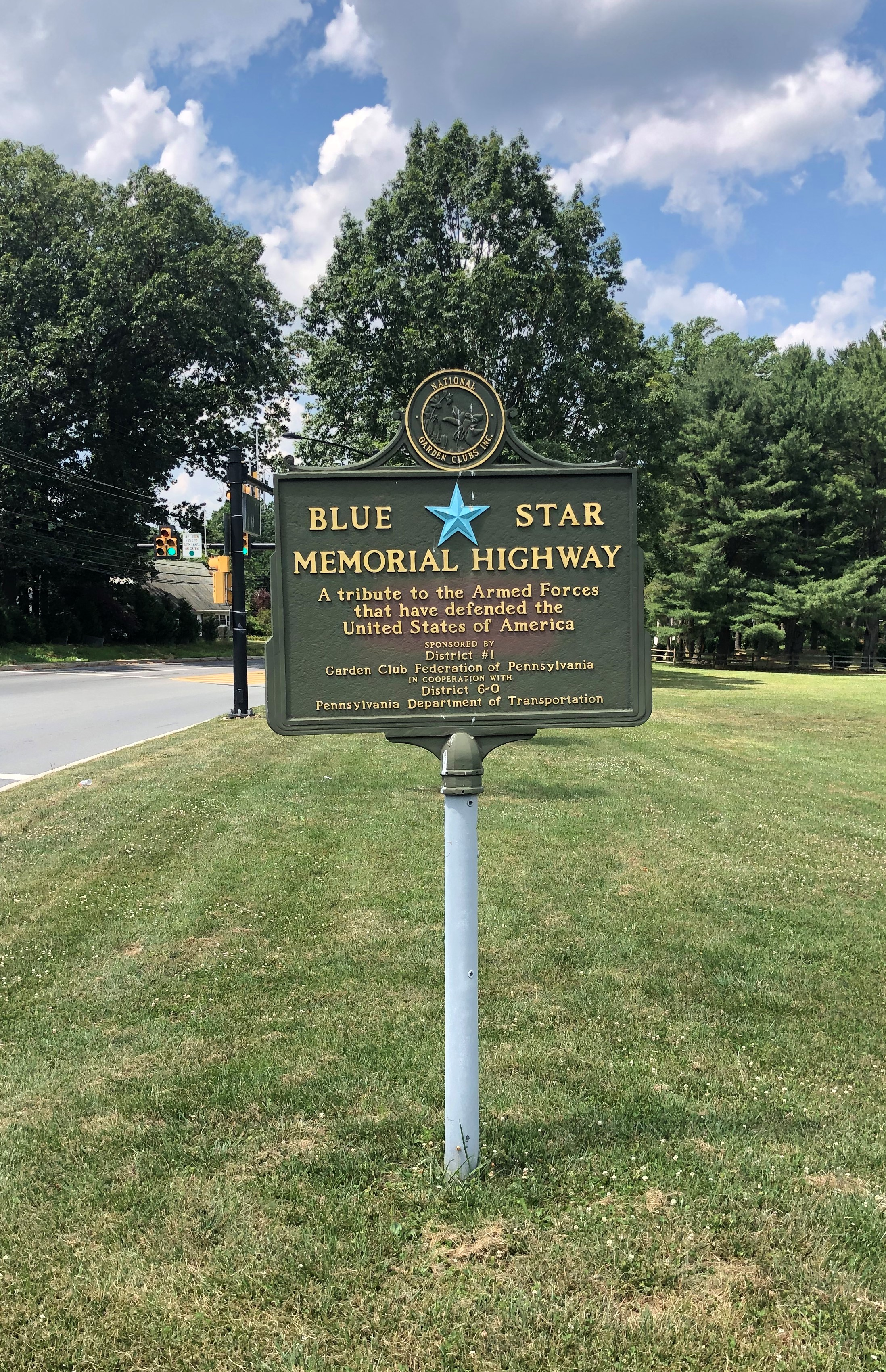 Photo of Blue Star Memorial Highway Marker located in Media PA taken 07042020